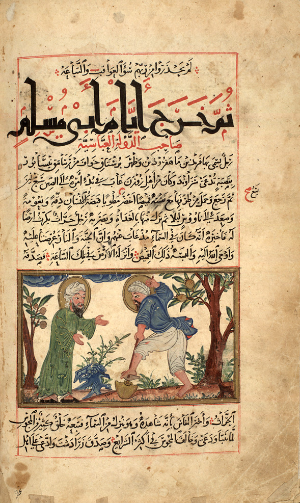 Manuscript of Biruni's The Remaining Signs of Past Centuries represents story of Behafarid. Persian miniature, Seljuk-Ilkhanate school.